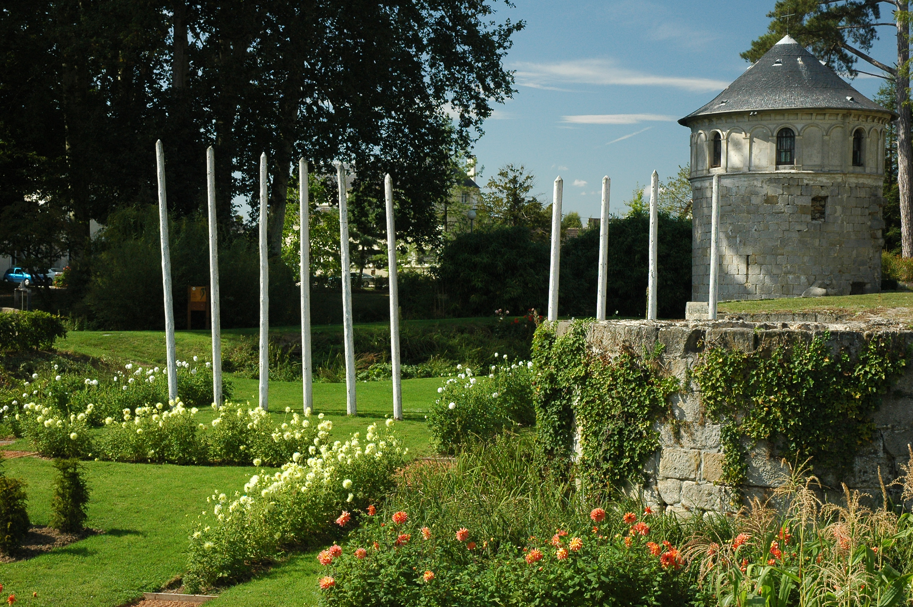 Marcoussis